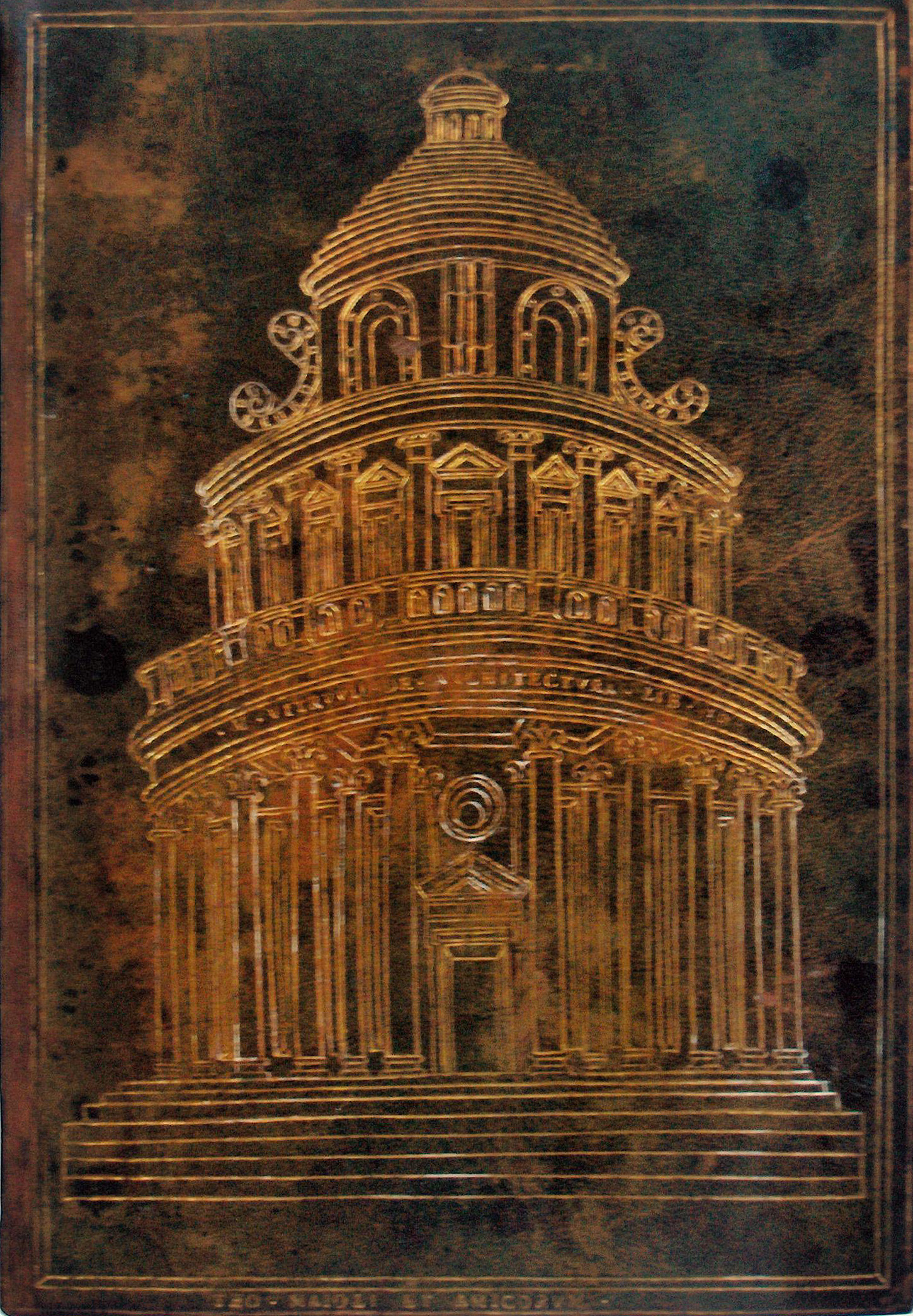 "De Architectura" by Vitruvius; first illustrated edition by Fra. Giovanni Giocondo, printed by Johannes de Tacuino, Venice, 1511 ; Bibliothèque de l'Ecole Polytechnique, Paris (on exhibition in Brussels); Original title "M. Vitruvius, per jocundum solito castigatior factus, cum figuris et tabula ut iam legi et intellegi possit"